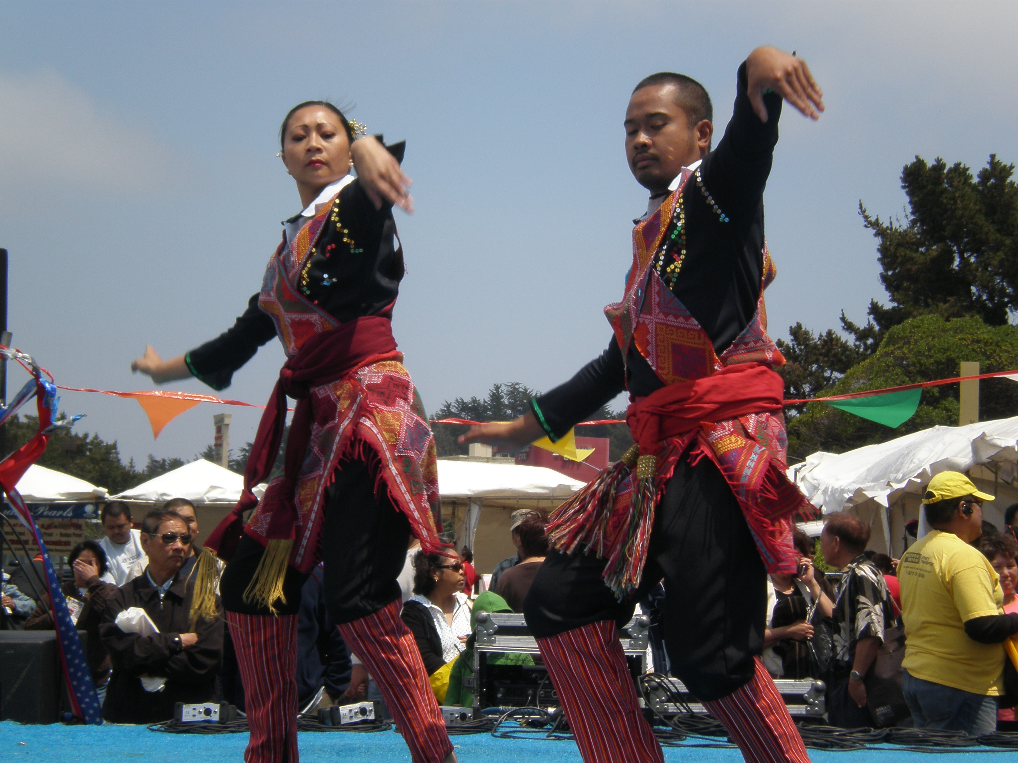 Members of the San Francisco based Parangal Dance Company performing the Pangalay dance of the Tausug people of Jolo as part of their Bangsamoro suite of dances at the 14th Annual Fil-Am Friendship Celebration at Serramonte Center in Daly City, California.